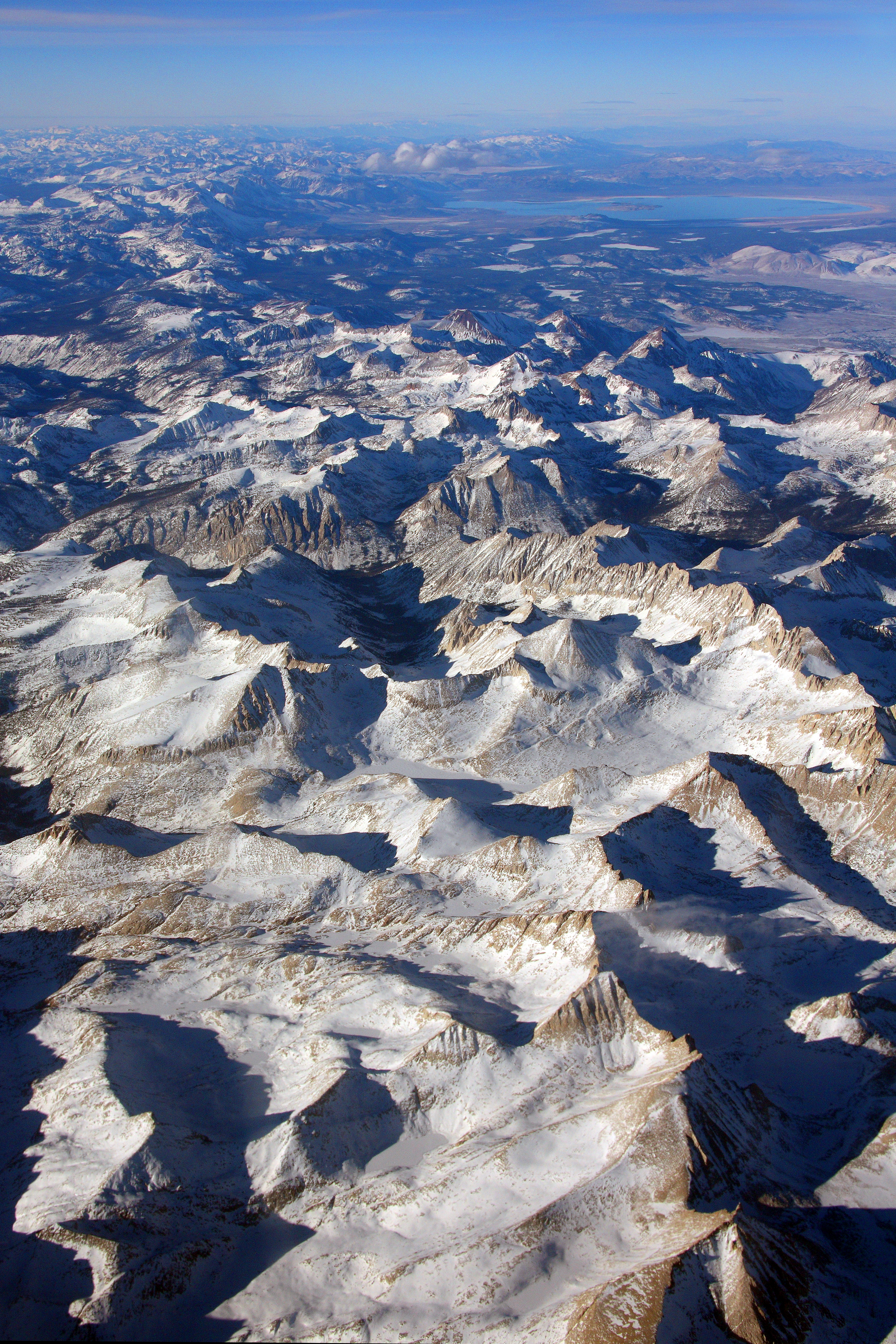 North-northwest view of the Mills Creek cirque (center) in the Sierra National Forest near the midpoint of the Sierra Crest, which extends along the cirque's southeast corner (right) at Mounts Abbot and Mills northward from La Salle Lake (bottom, partially shadowed), the image's centerline is through the south side of the cirque between Mounts Hilgard (left, casting shadow w/ sunlit streak) and Gabb (right of centerline), then north of the cirque along the Sierra Crest's Red and White and Red Slate mountains (right of centerline). The crest extends northwest to Mammoth Crest and Mammoth Mountain and then west of Mono Lake (top, blue) in the north, e.g., across Tioga Pass west of the Wheeler Crest. Between the cirque and Mono Lake is Crowley Lake (white, right of centerline).